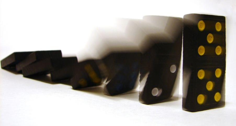 Cropped version of :Image:Domino effect.jpg